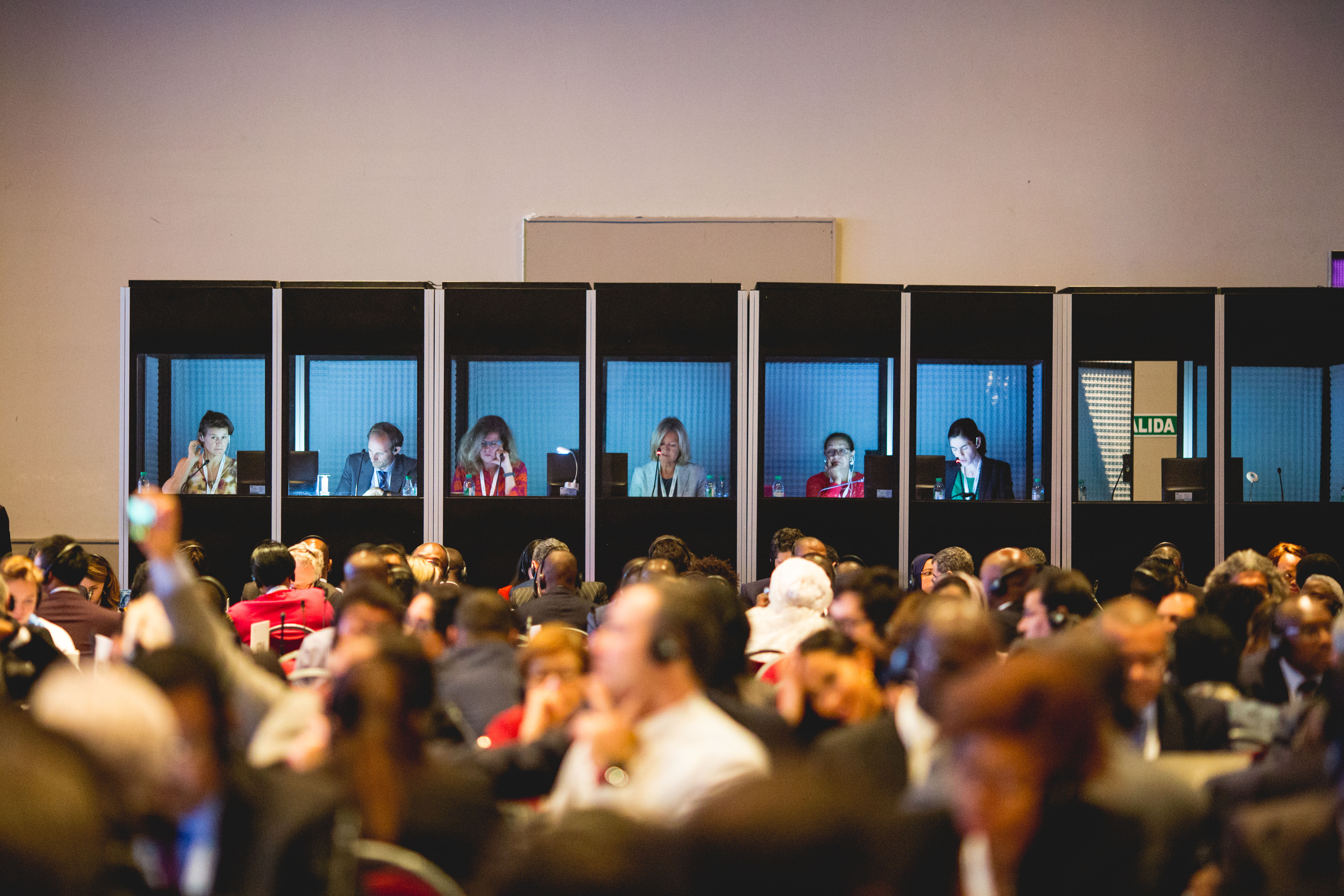 Photos from the Heads of Delegation meeting (11 December) photo gallery may be reproduced provided attribution is given to the WTO and the WTO is informed. Photos: © WTO/ Cuika Foto